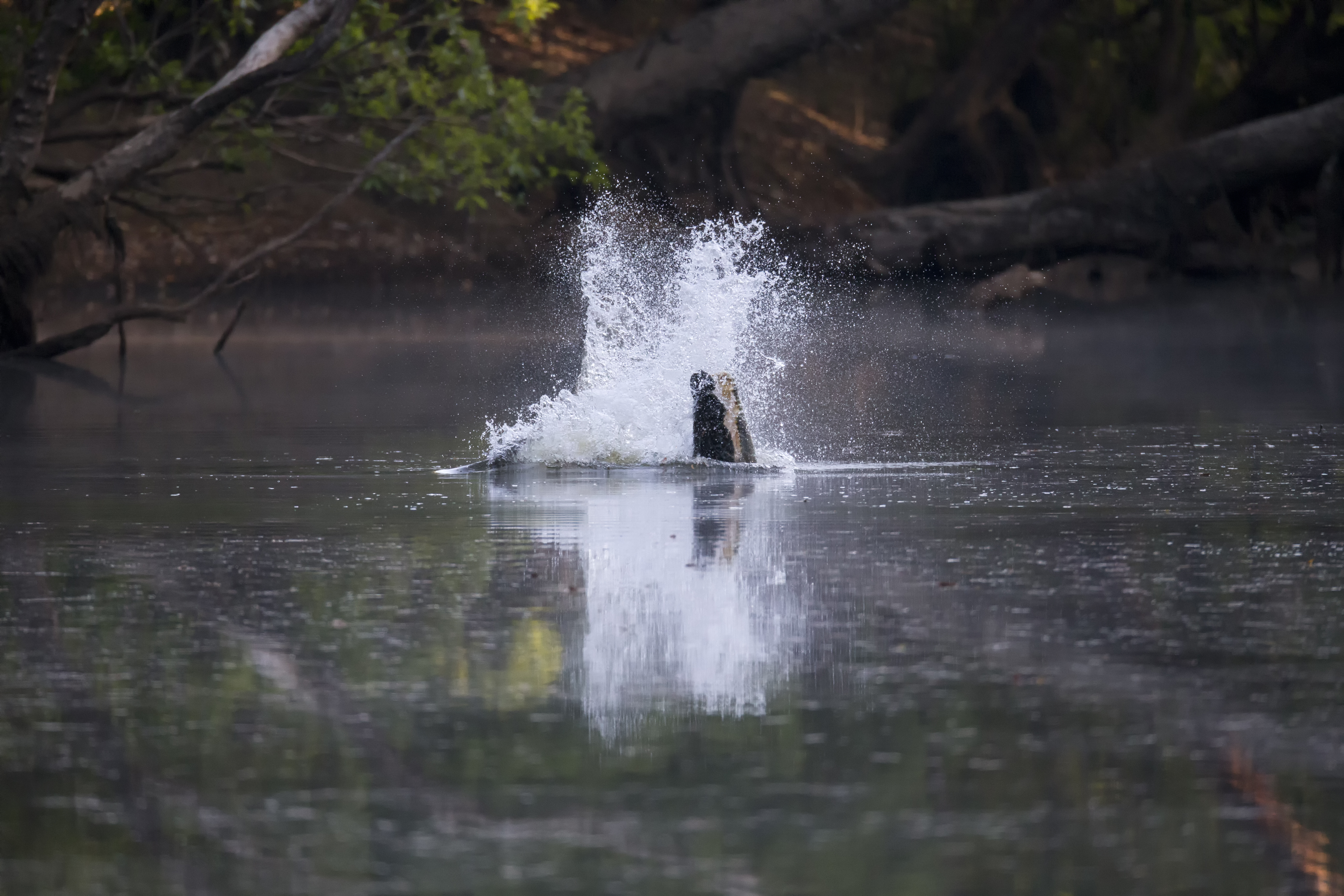 A series of shots, it will take a while to load them all, about our last camping trip. We awoke to two large male salties having a slight disagreement about turf. The night before, the boys reckoned there were no crocs in the river. I proved right. One, I would guess at close to 18 feet, and a smaller one, maybe 16 feet? The light was low and there was some distance involved, so the earlier shots were lacking detail. Later I snuck up the bank with the 70-200 zoom, these are better. These boys play rough. Sorry about the lack of order but Flickr doesn't seem to be good at arranging a series of shots? The fight went on for hours, the noise was amazing, echoing up and down the waterhole. I guess the big one won, but who knows, the smaller one was tenacious. The big one had one foot missing, I dont know if it was a previous injury, or the smaller one had already "tasted" victory?